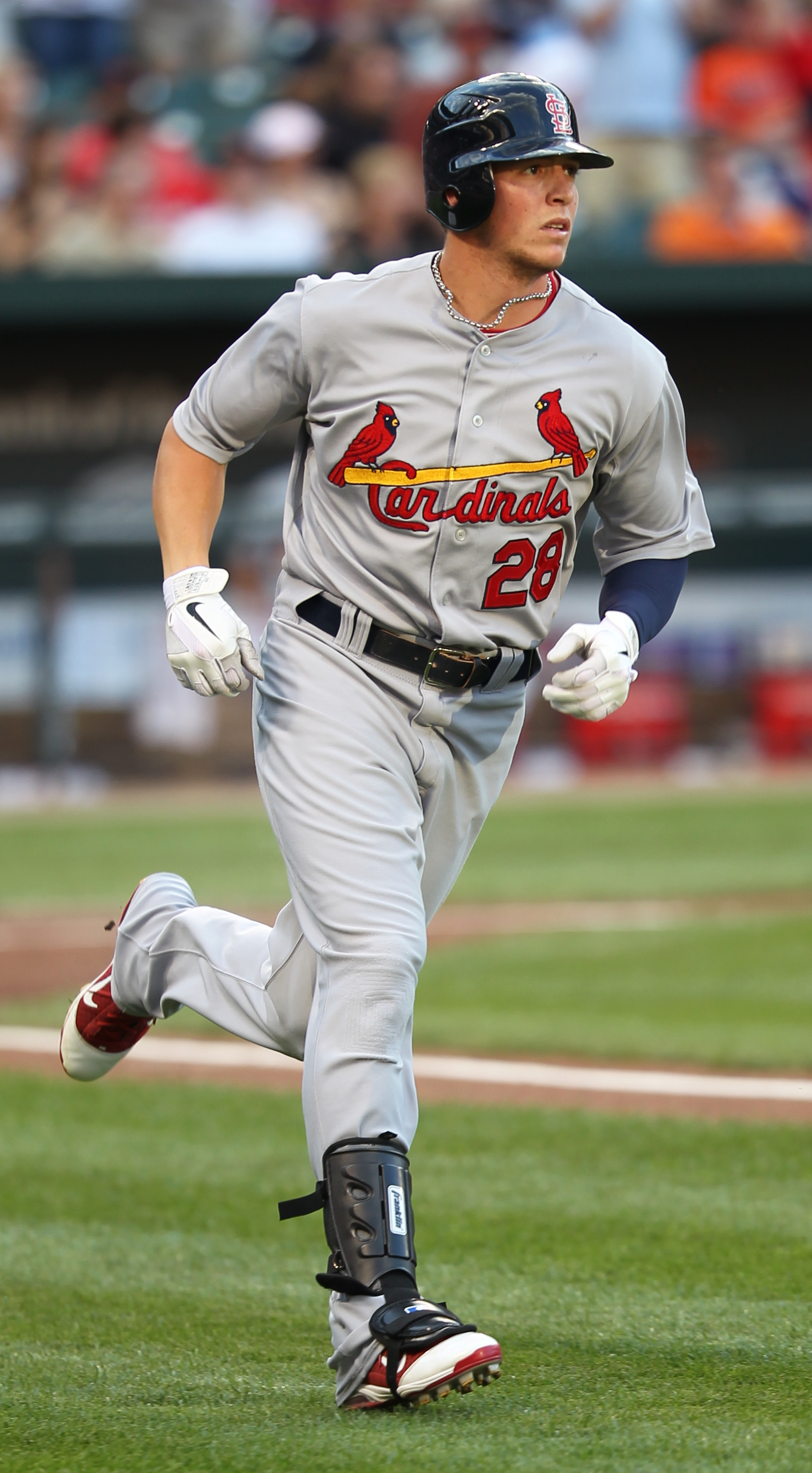 Colby Rasmus